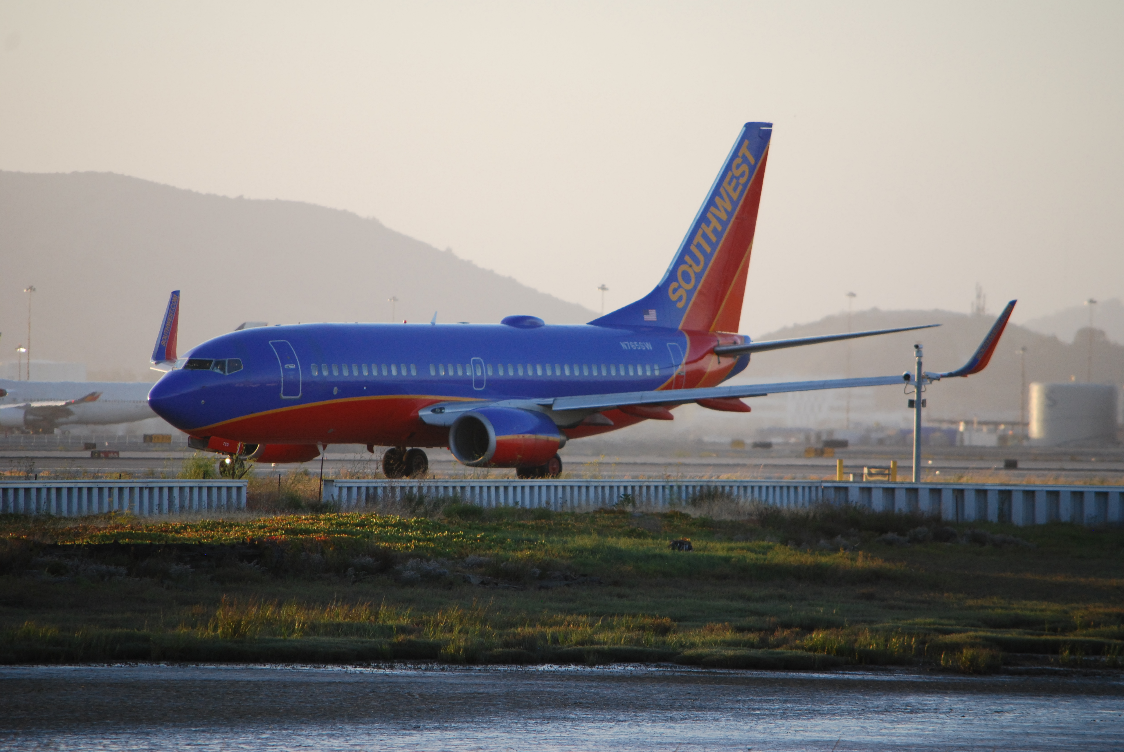 The longer this 737 and the United A-320 stood there, the better they looked!